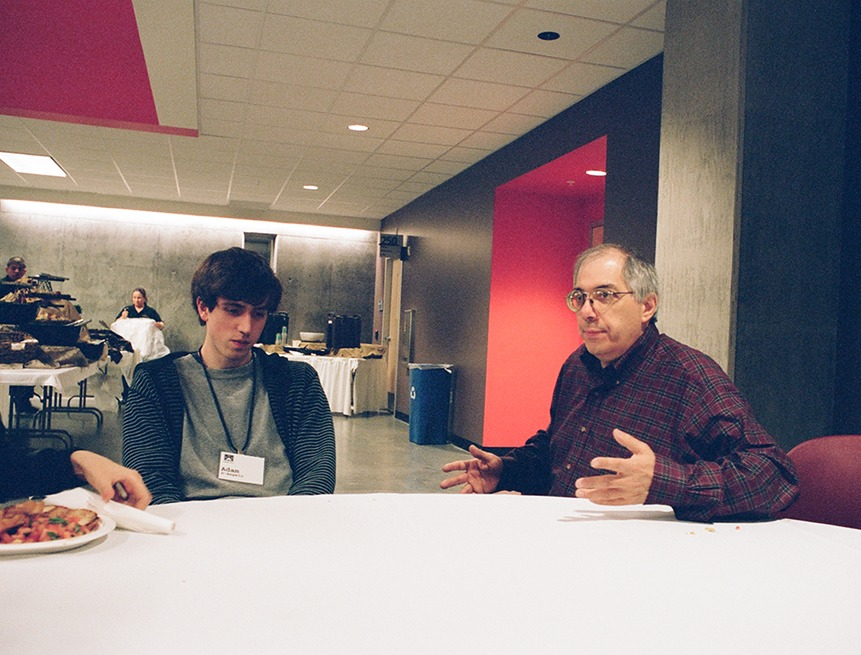 Adam D'Angelo of Quora